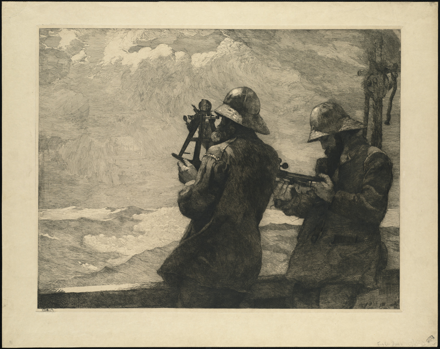 BPLDC no.: 09_03_000022 Title: Eight Bells Creator: Winslow Homer, artist (1836-1910) Date created: 1887 General format: etching BPL Department: Print Department Description: Winslow Homer was trained as an apprentice in the Boston lithographic firm of J.H. Bufford. He then moved to New York where he established his reputation as an illustrator for Harper’s Weekly. After a trip to England in 1881-1882, Homer settled in Prout’s Neck, Maine. There, between 1884 and 1886, he produced a series of sea paintings, which he then published as etchings. Eight Bells was printed from one of the eight plates Homer etched between 1884 and 1889 and represents the mature phase of his artistic career. The Boston Public Library Print Department has major holdings of prints and drawings by American artists of the 19th and 20th centuries.